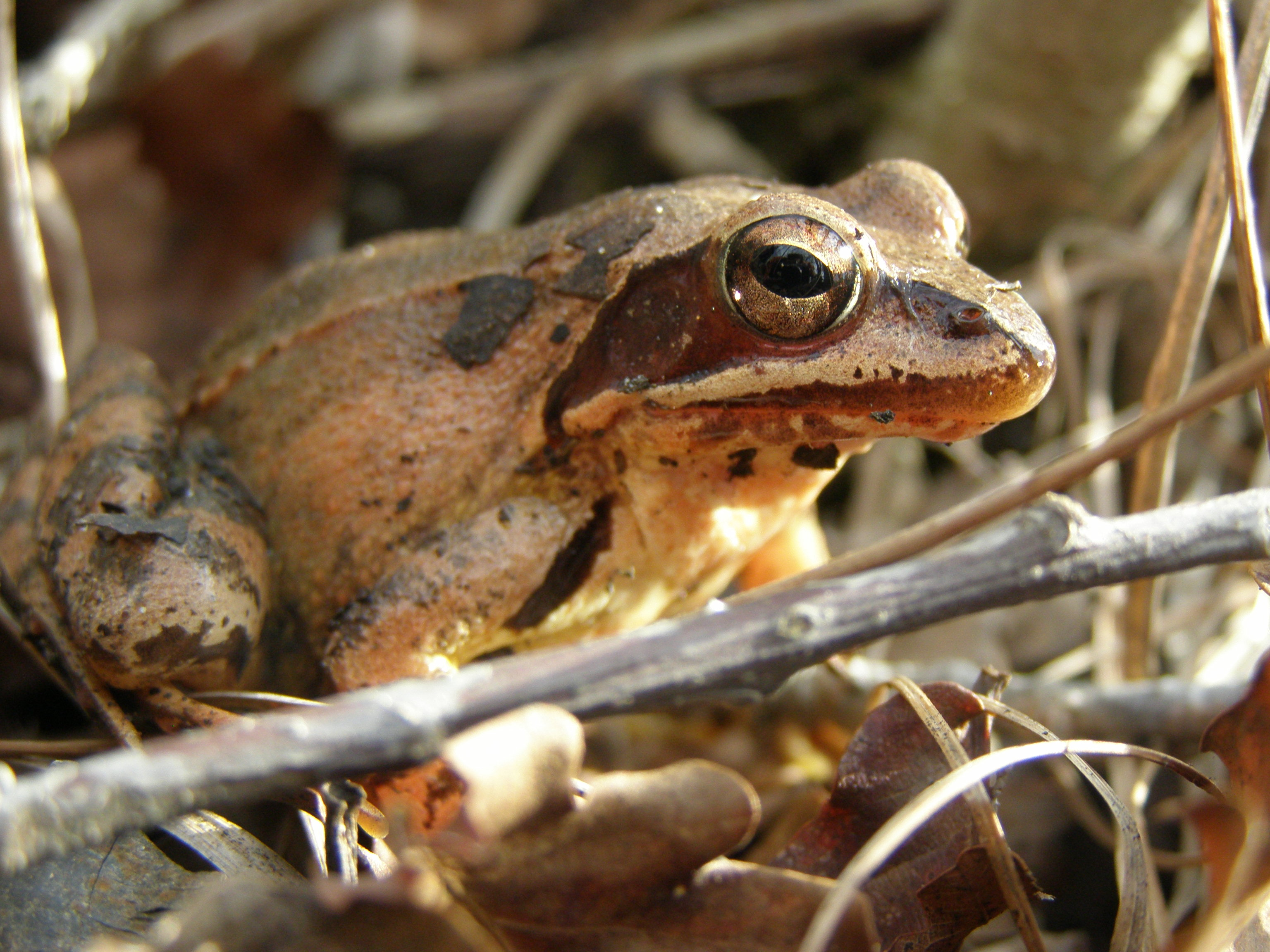 Monitoring Amphibian phenology, in chief in monomodal reproductive species, is an useful way to understand climate warming and its consequences.